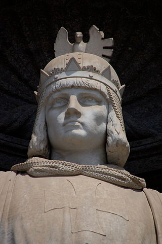 Federico II di Svevia, Statua Piazza Plebiscito